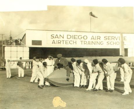 Peaches Wallace was an aviatrix who flew at the Ryan Flying School in San Diego. She later was a member of the Anne Lindbergh Gliders. SOURCE INSTITUTION: San Diego Air and Space Museum Archive